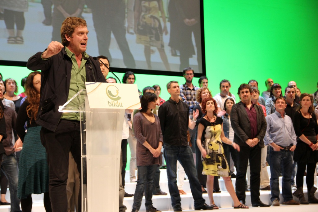 Maiorga Ramírez